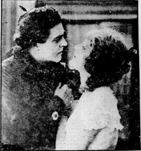 Still from the American western film The Last of the Duanes (1919) with William Farnum and Louise Lovely, on page 9 of the February 7, 1920 Duluth Herald.